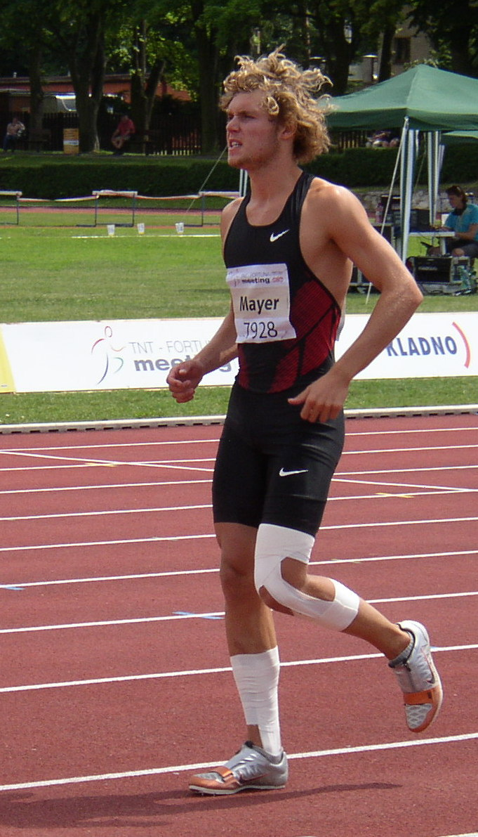 Athlete Kevin Mayer of France preparing for his attempt in long jump during men's decathlon at 5th edition of the TNT - Fortuna Meeting (IAAF World Combined Events Challenge Meeting, Sletiště Stadium, Kladno, Czech Republic, 15 June 2011, 14:15).